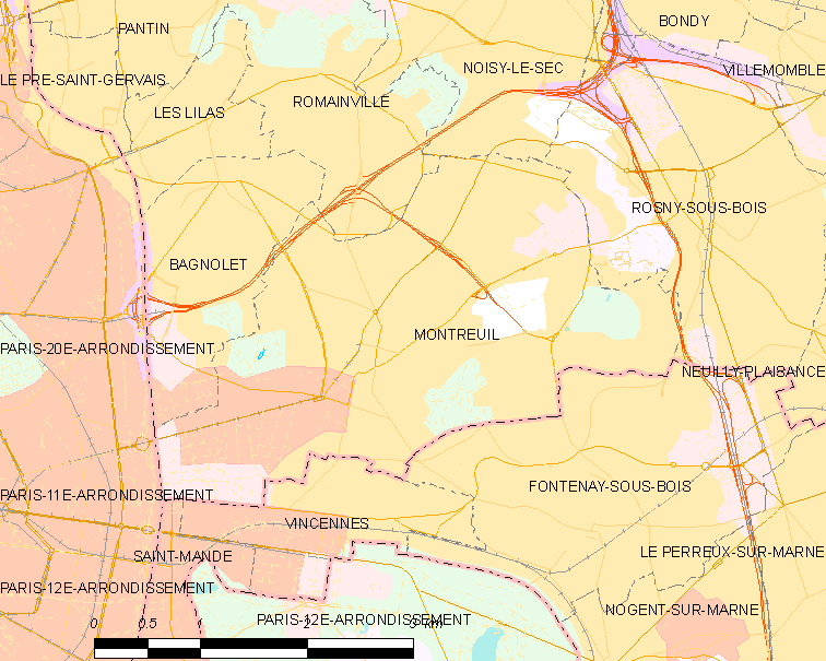 Map of French municipality Montreuil